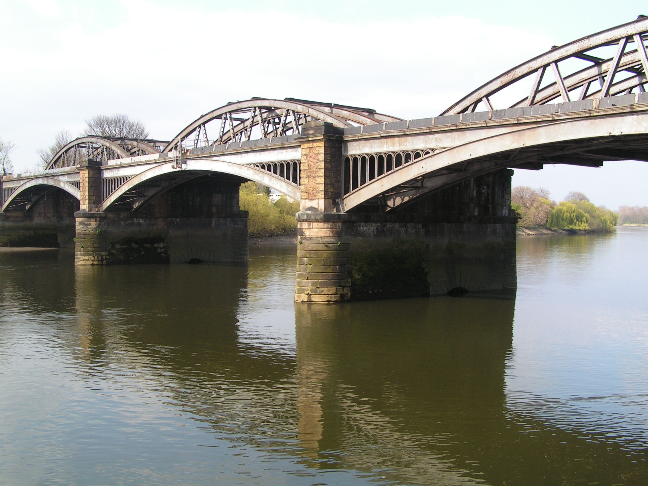 Barnes Railway Bridge from upstream, showing the original Locke span